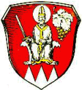 Coat of Arms of Hettstadt